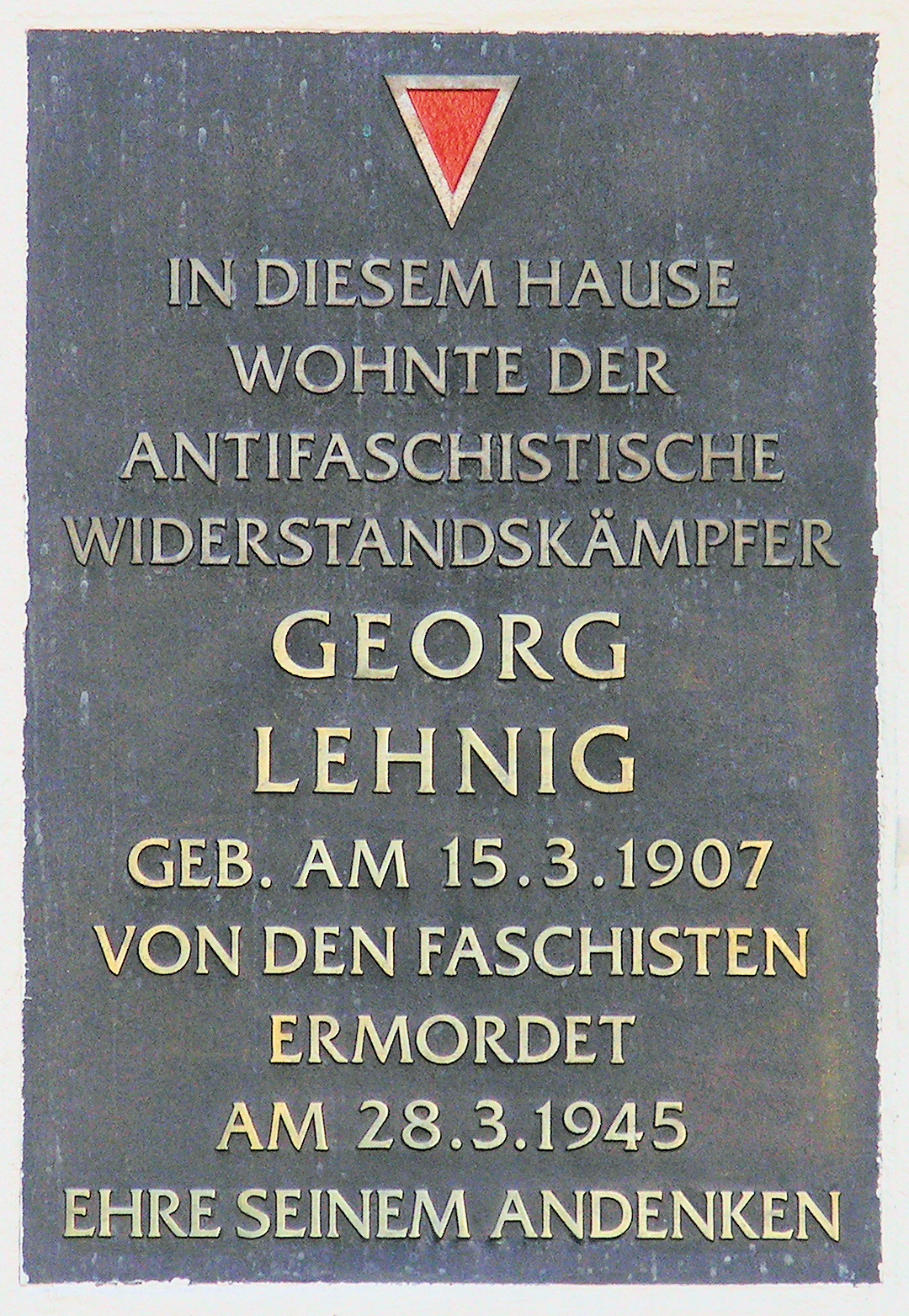 Memorial plaque, Georg Lehnig, Wönnichstraße 105, Berlin-Rummelsburg, Germany